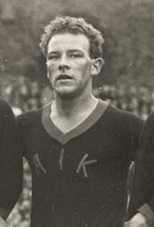 Swedish footballer Per "Pära" Kaufeldt in AIK jersey